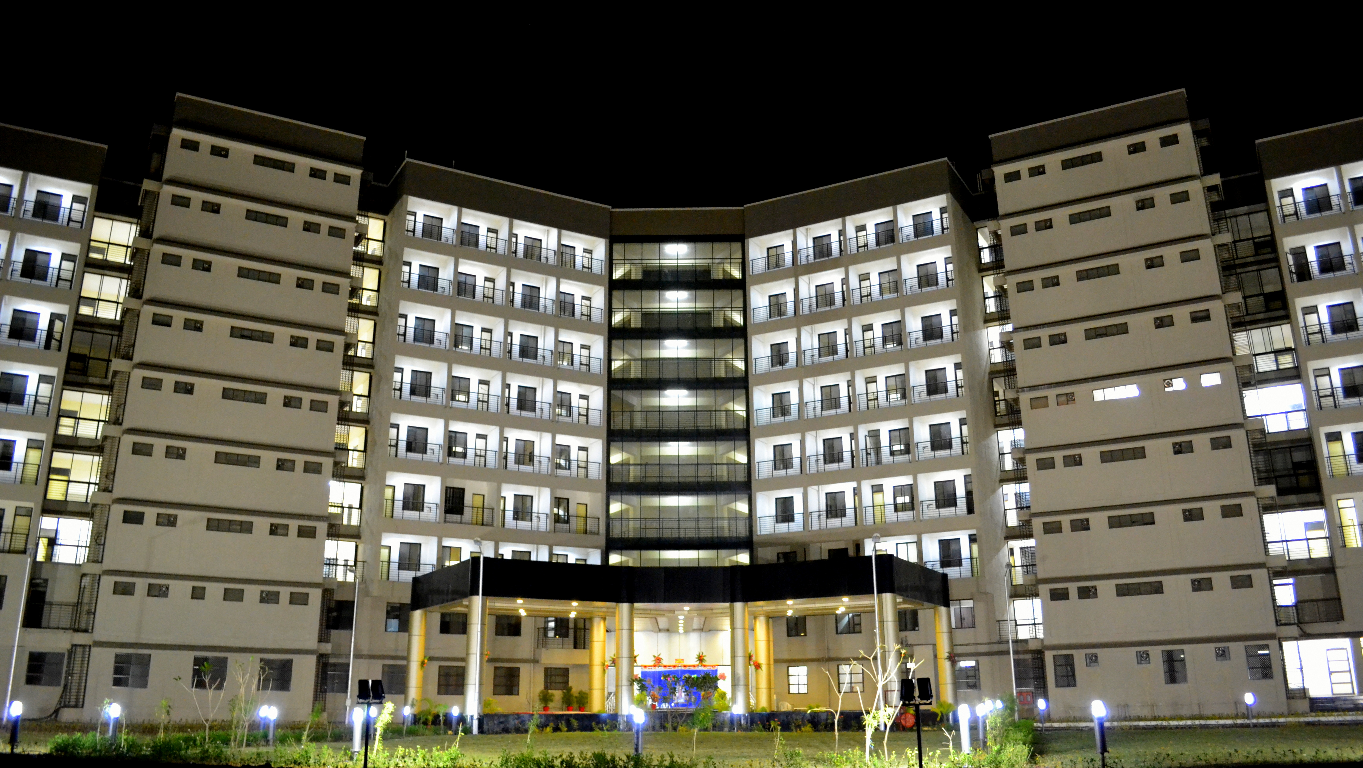 newly constructed hostel in nit,surat